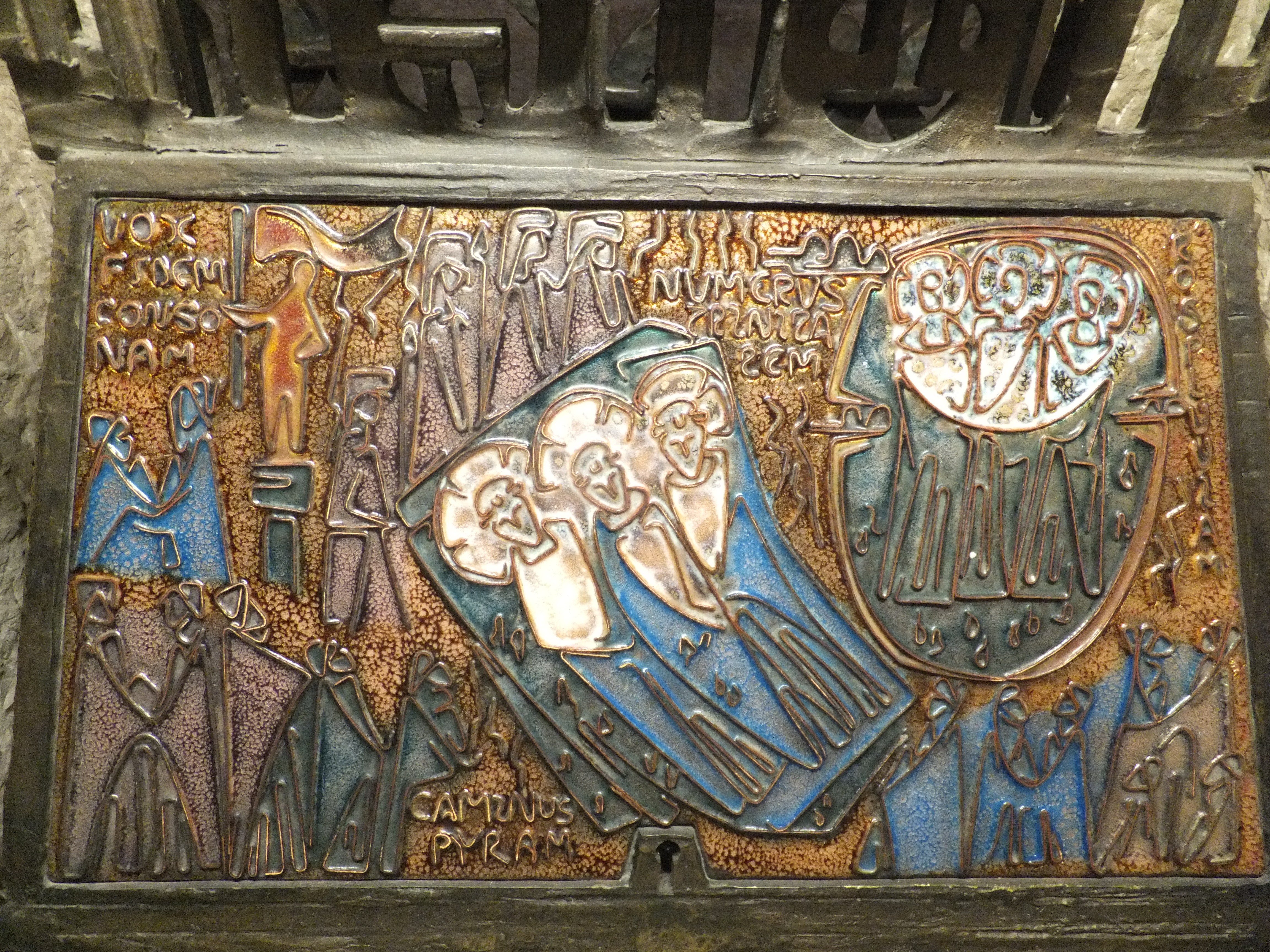 Cathedral of Trento - Detail of the shrine with the relics of the martyrs Sisinnius, Martyrius and Alexander